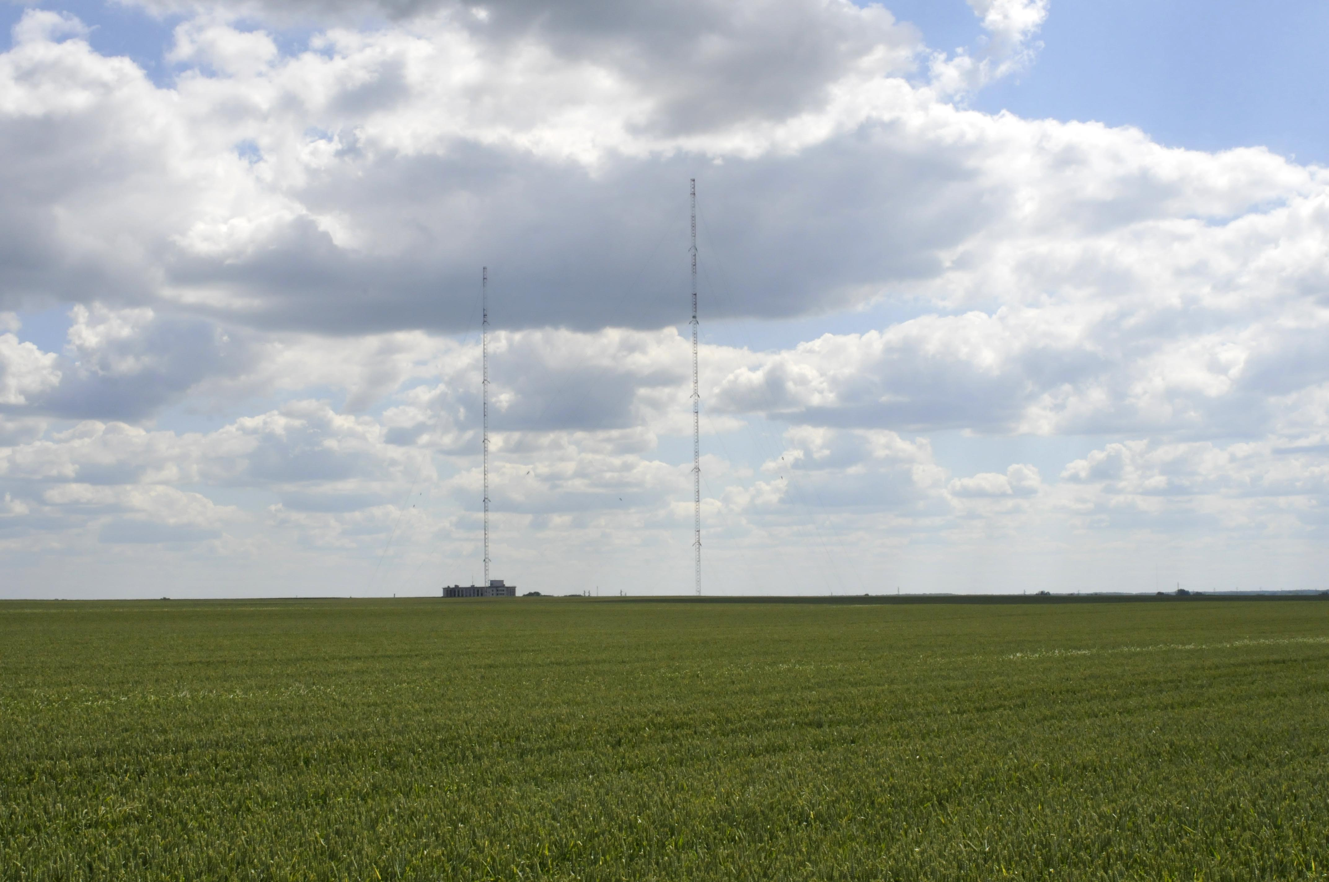 Émetteur d'Allouis